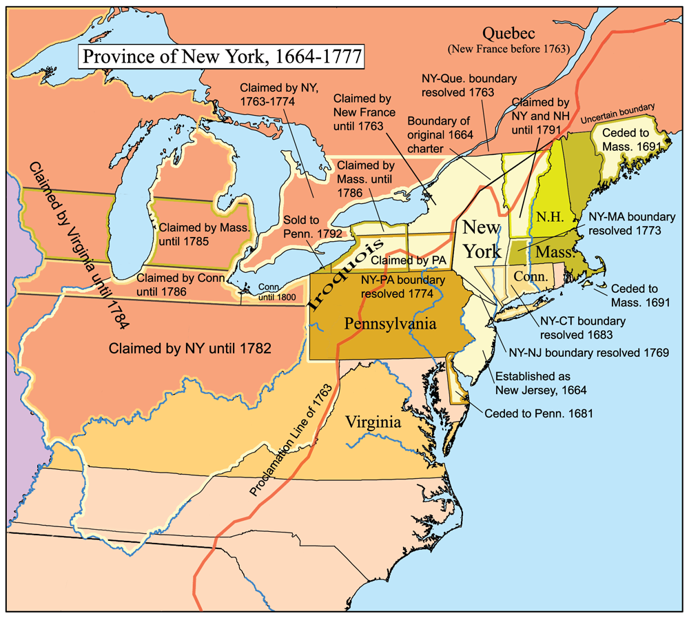 This is a map of the Province of New York that I made. Boundary disputes between colonies not involving New York are not shown. Based heavily on [1].